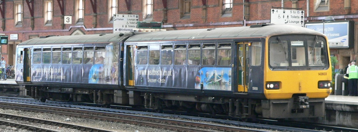 Wessex Trains Class 143 DMU 143603 at platform 3 of Bristol Temple Meads station with a service to Avonmouth.